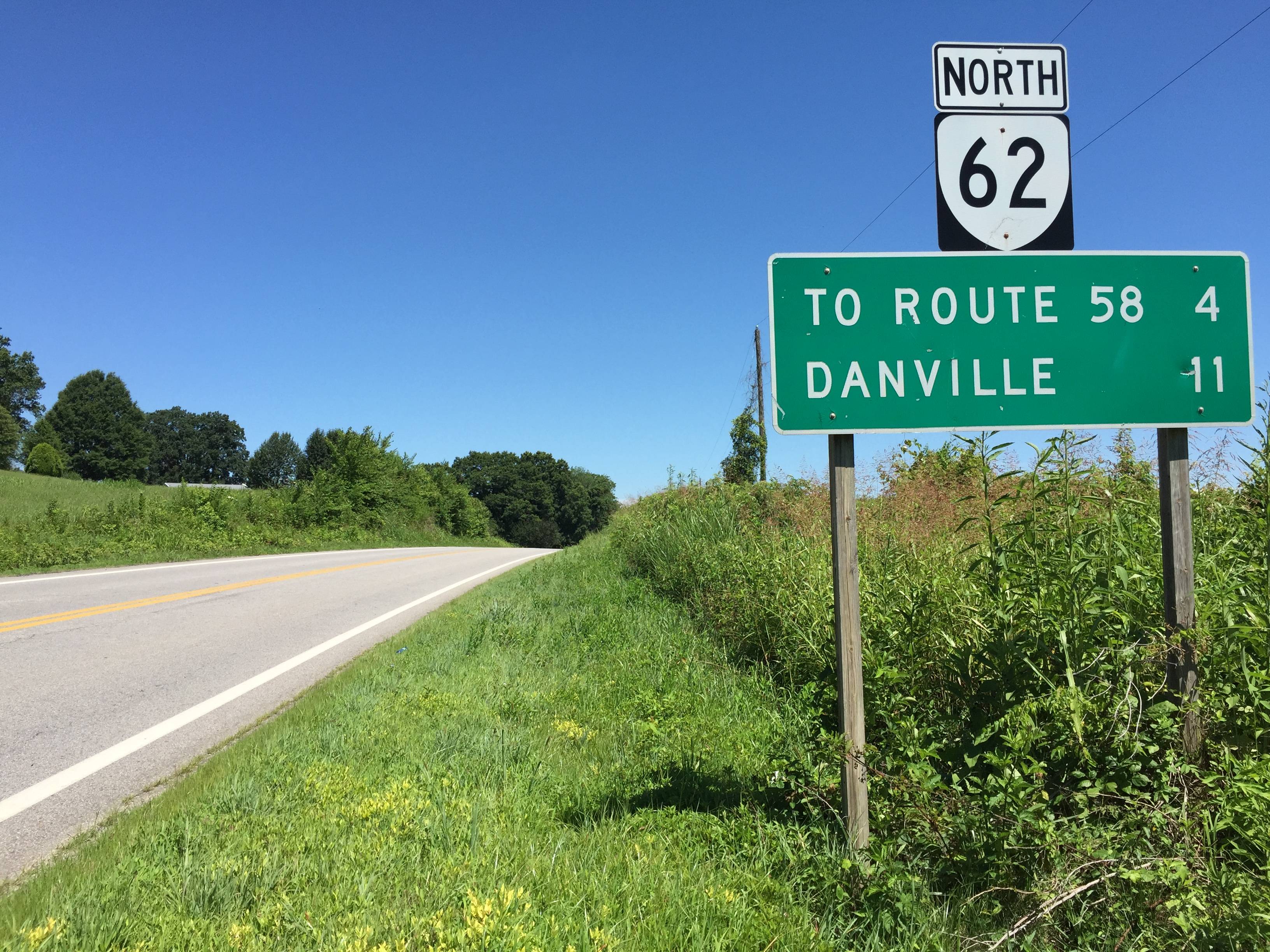 View north along Virginia State Route 62 (Milton Highway) between River Bend Road (Virginia State Secondary Route 1527) and Sonshine Drive in southeastern Pittsylvania County, Virginia